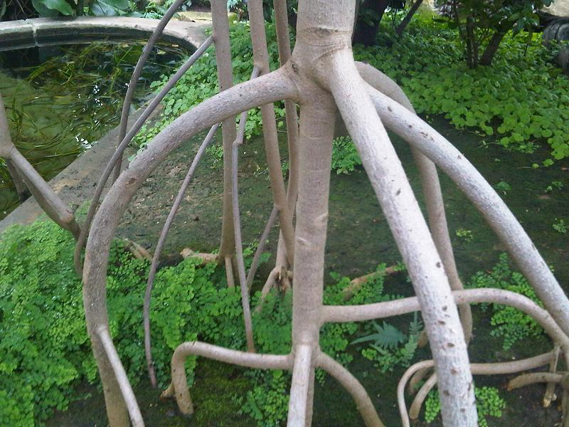 Red mangrove (Rhizophora mangle) roots in Kew Gardens, England.